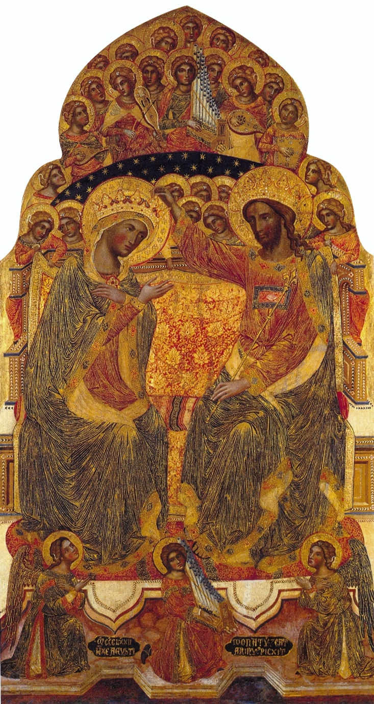 The Coronation of the Virgin